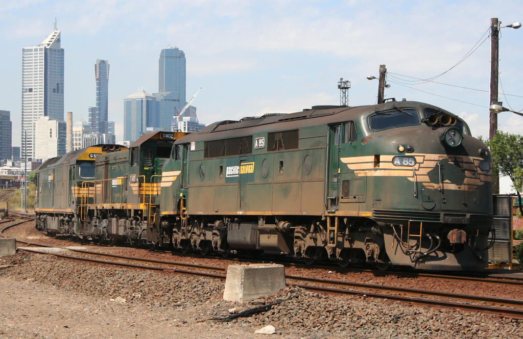 Three styles of diesel locomotives in Victoria, Australia - A class 'bulldog', T class 'hood unit', G class 'box unit'.